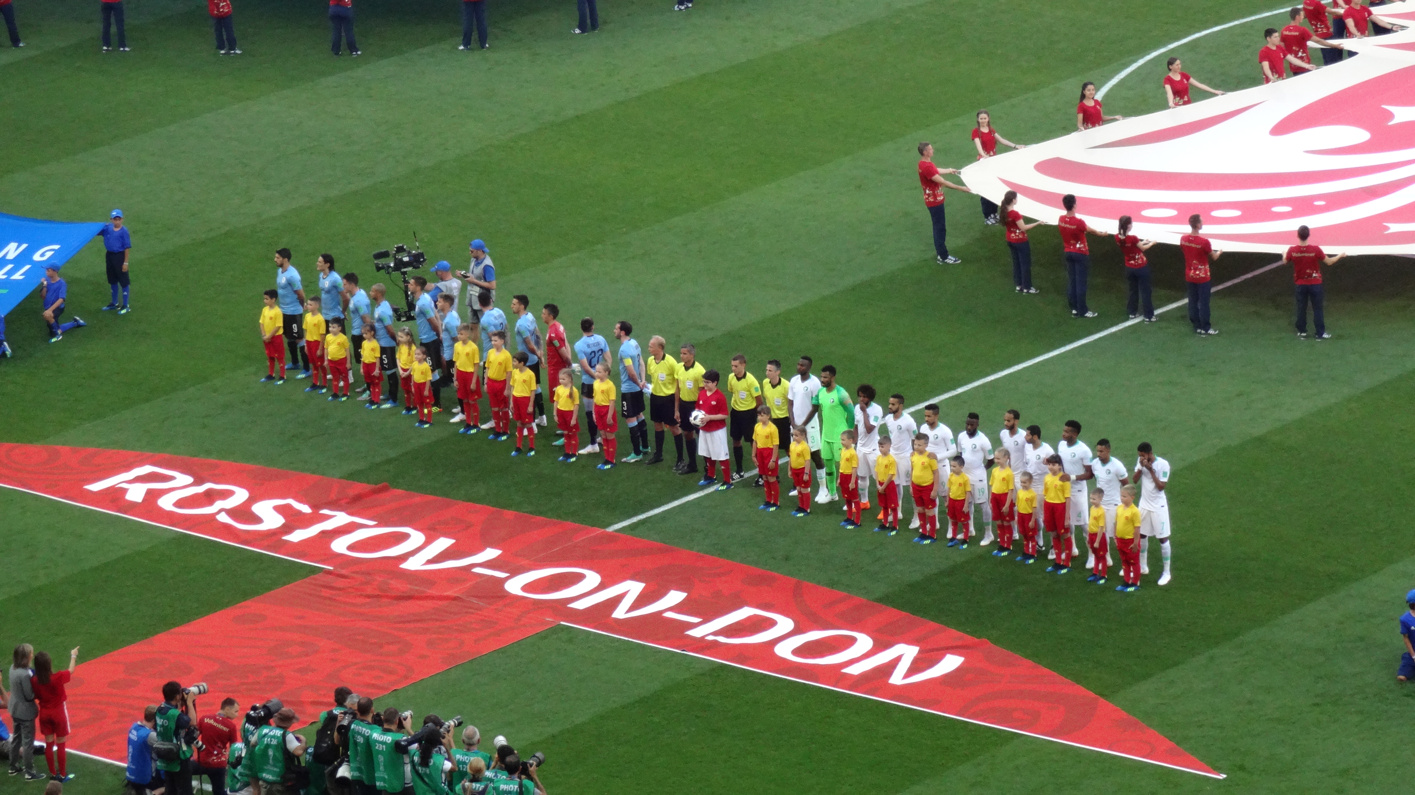 Uruguay - Saudi Arabia match, Group A, 2018 FIFA World Cup. Anthems ceremony.